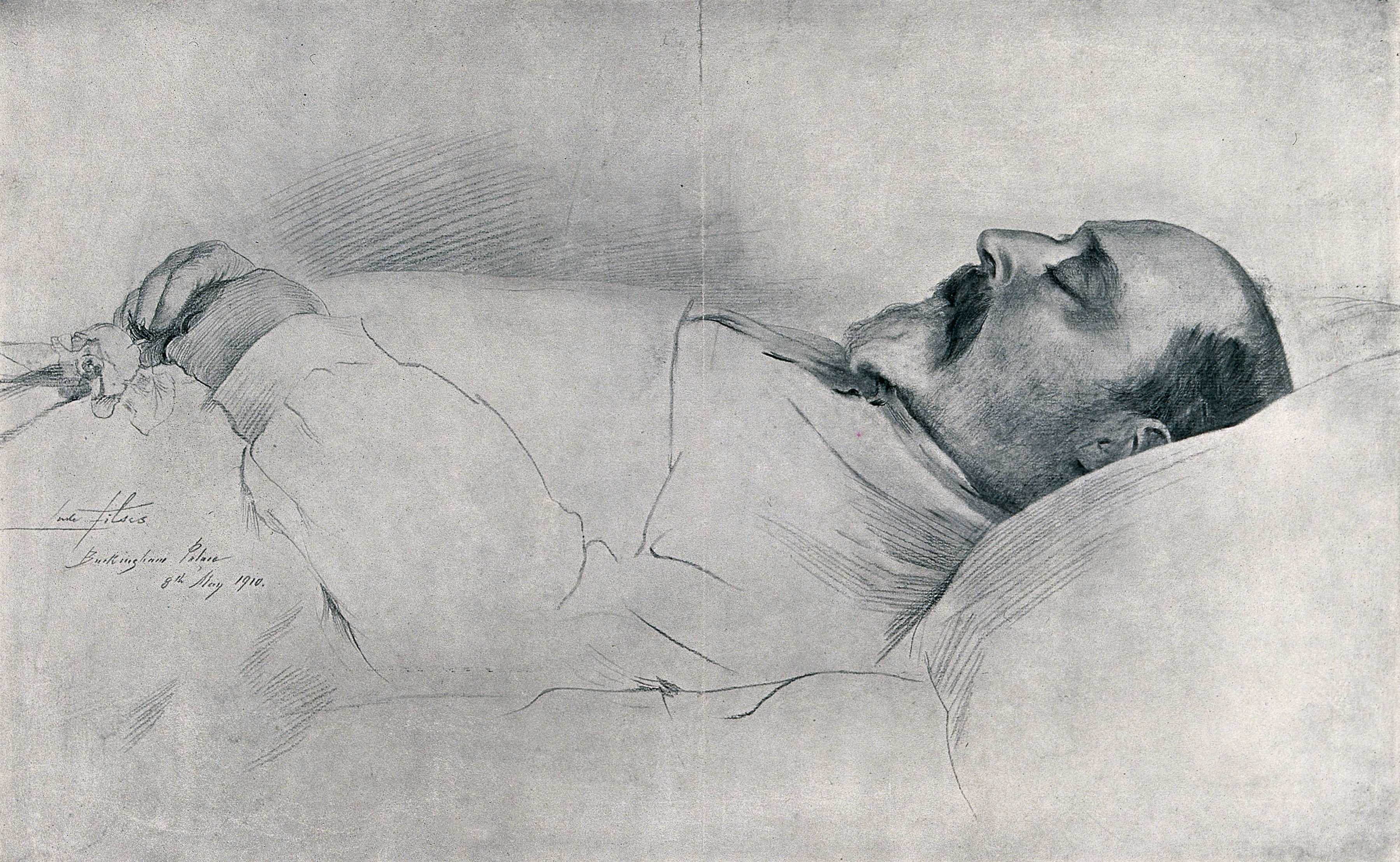 King Edward VII on his deathbed in Buckingham Palace in 1910. Iconographic Collections Keywords: Death; King Edward VII; Royalty; Luke Fildes